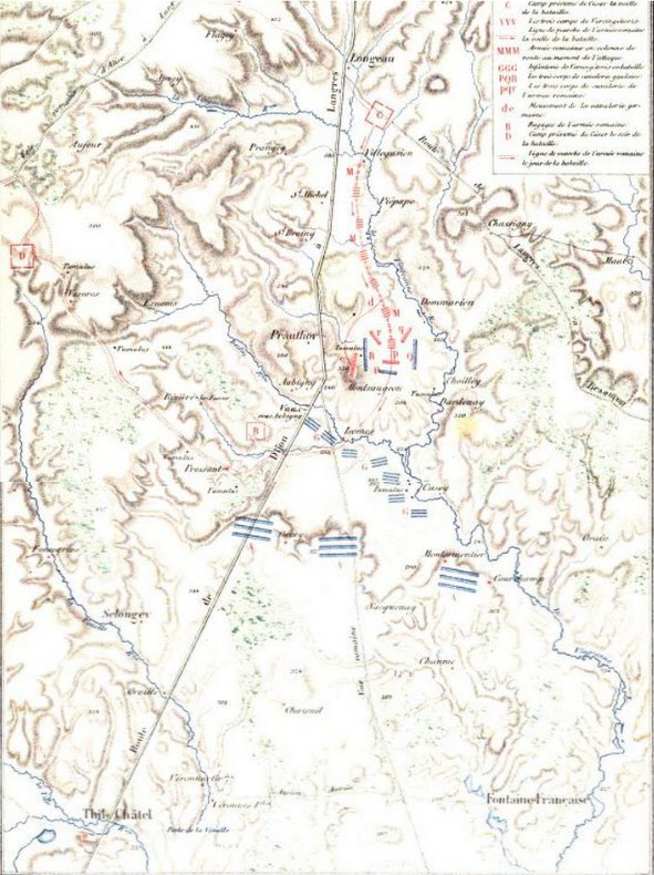 Plan of the Battle of Vingeanne (52 BC) from Napoleon III's life of Caaser.